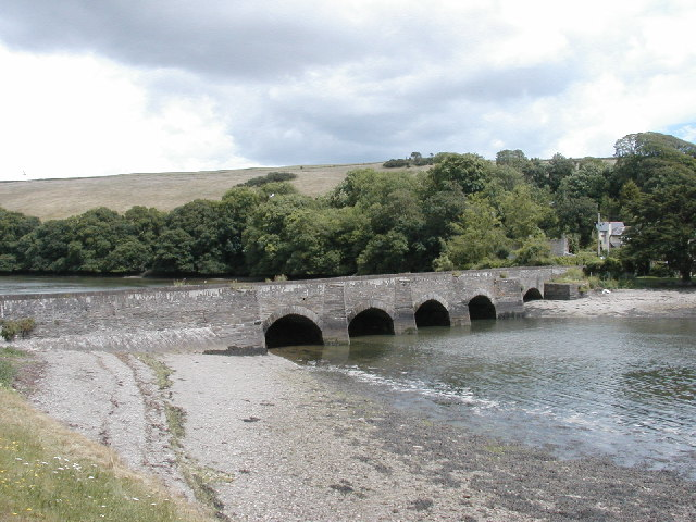 New Bridge, Bowcombe Creek, Kingsbridge Estuary. The right-hand arch was originally of timber, allowing it to swivel on bearings (cannon balls), so that ships could reach the mill further up the creek.